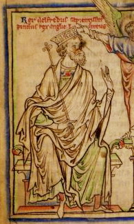 Alfred, King of the Anglo-Saxons. (Cambridge University Library, Ee.3.59: fol. 3v)